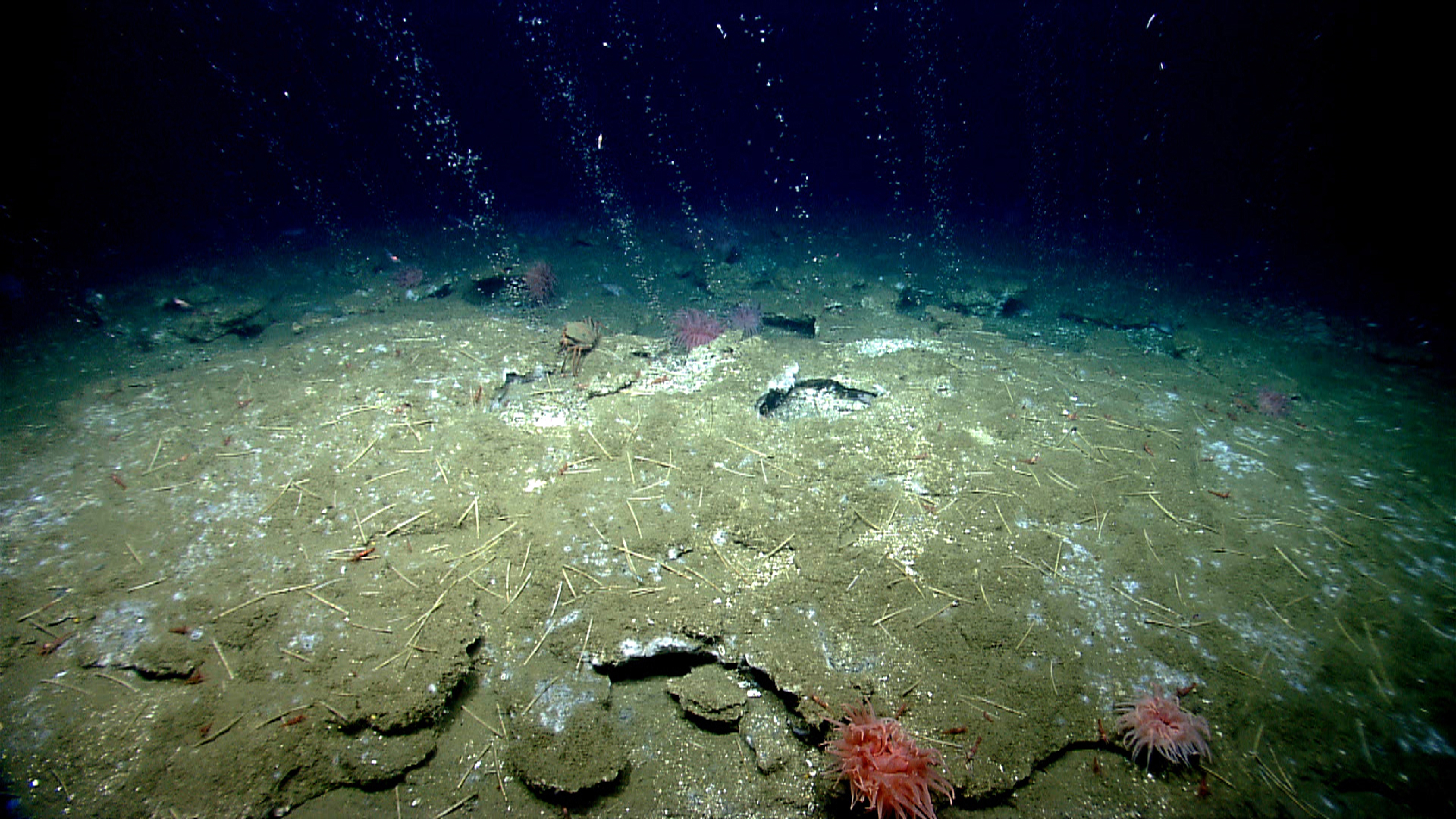 image of numerous distinct methane streams emanating from the seafloor at an upward slope